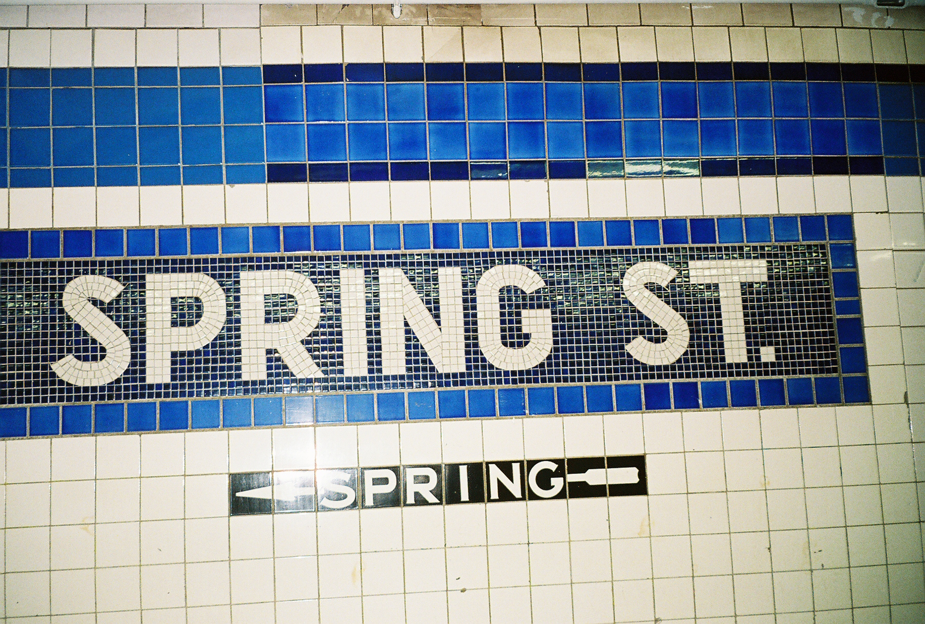 Photo for Wikipedia:Takes the Subway